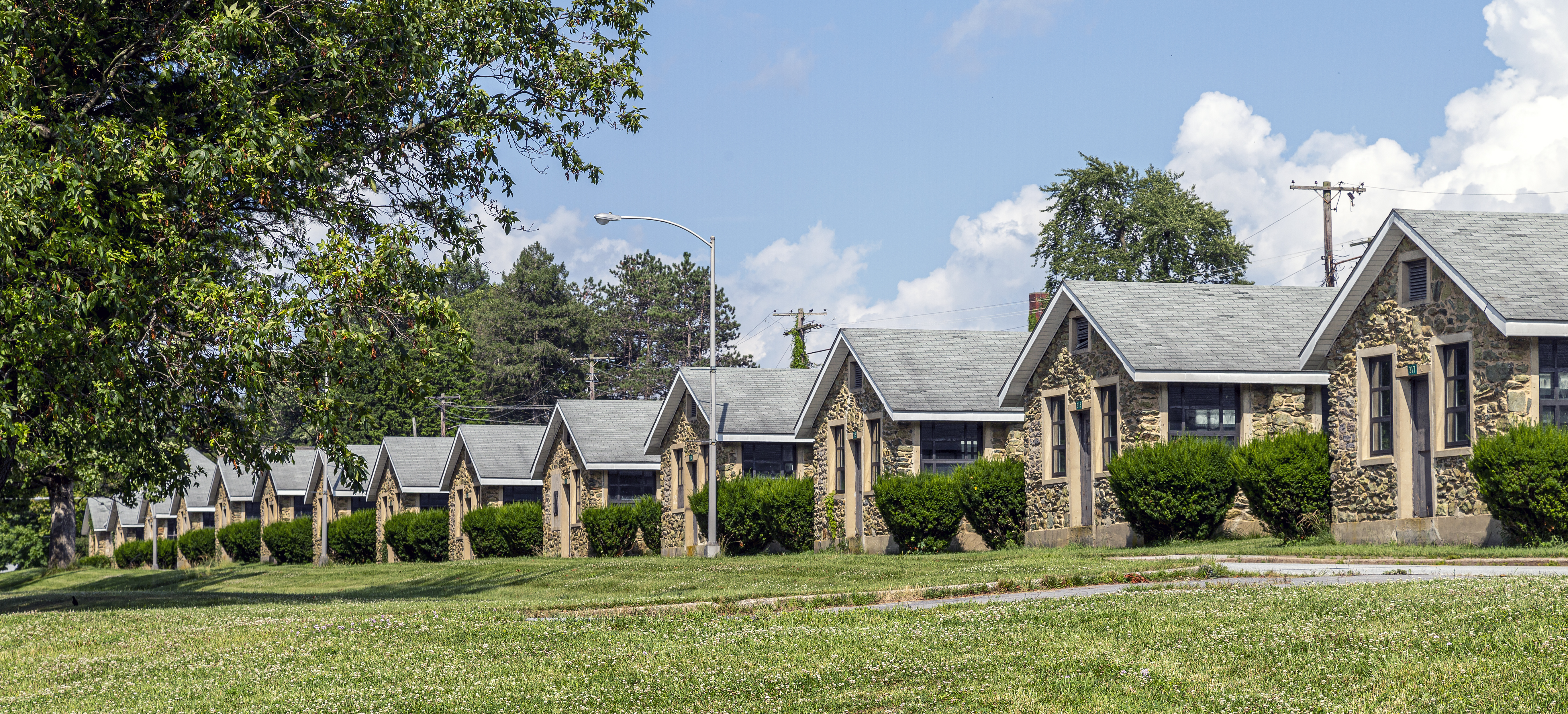 Stone barracks at Fort Ritchie, Maryland, USA